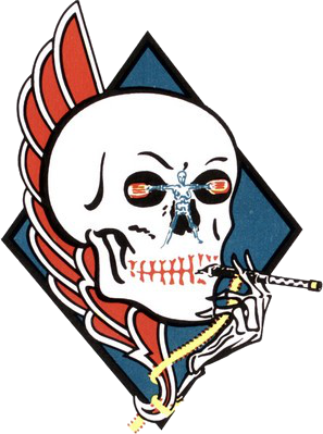 Emblem of the U.S. Navy Attack Squadron 34 (VA-34) "Blue Blasters".